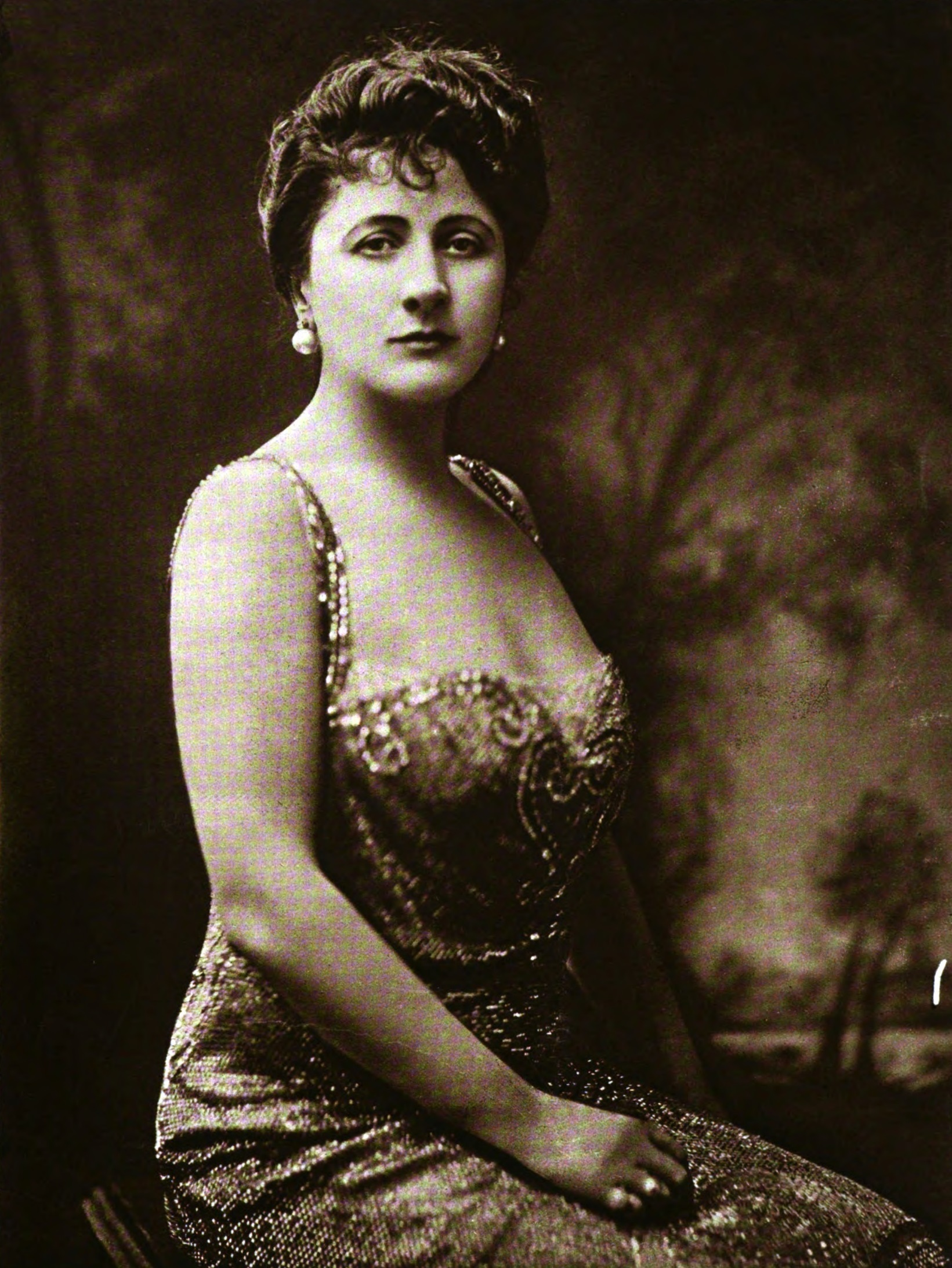 Mary Garden